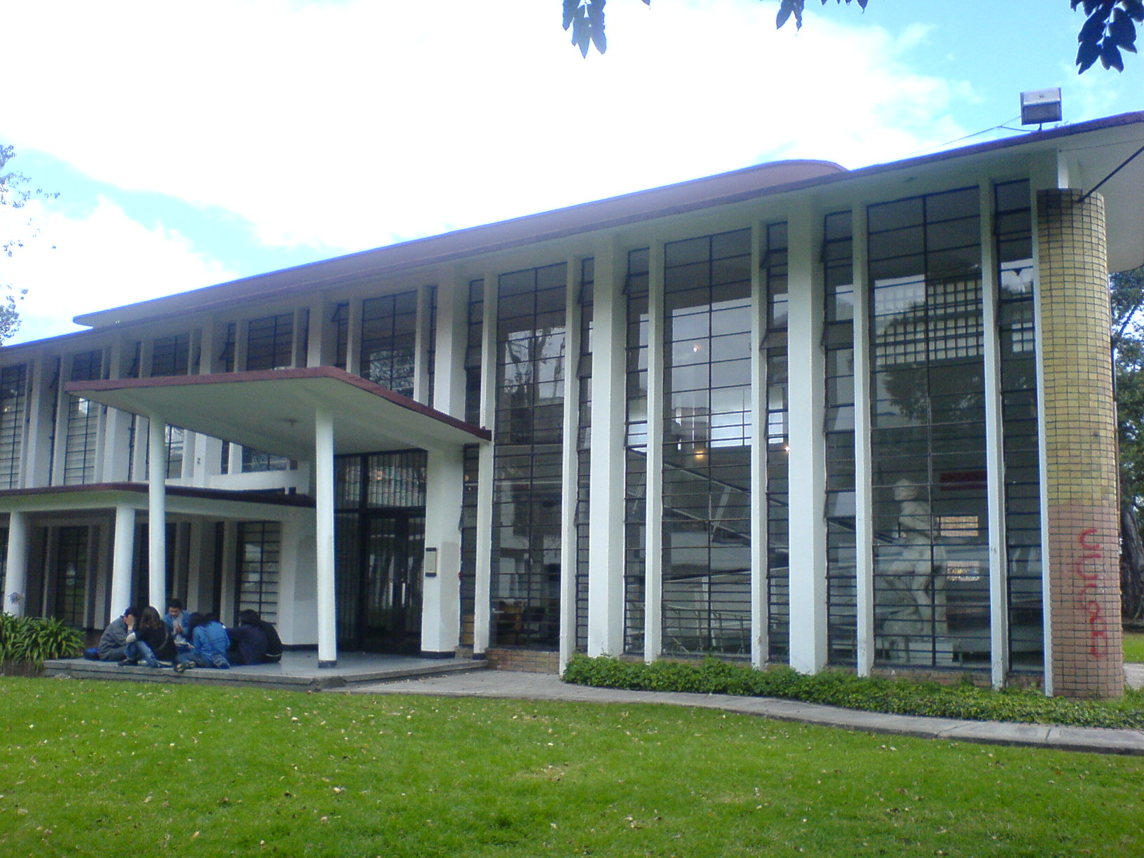 Museo Leopoldo Rother